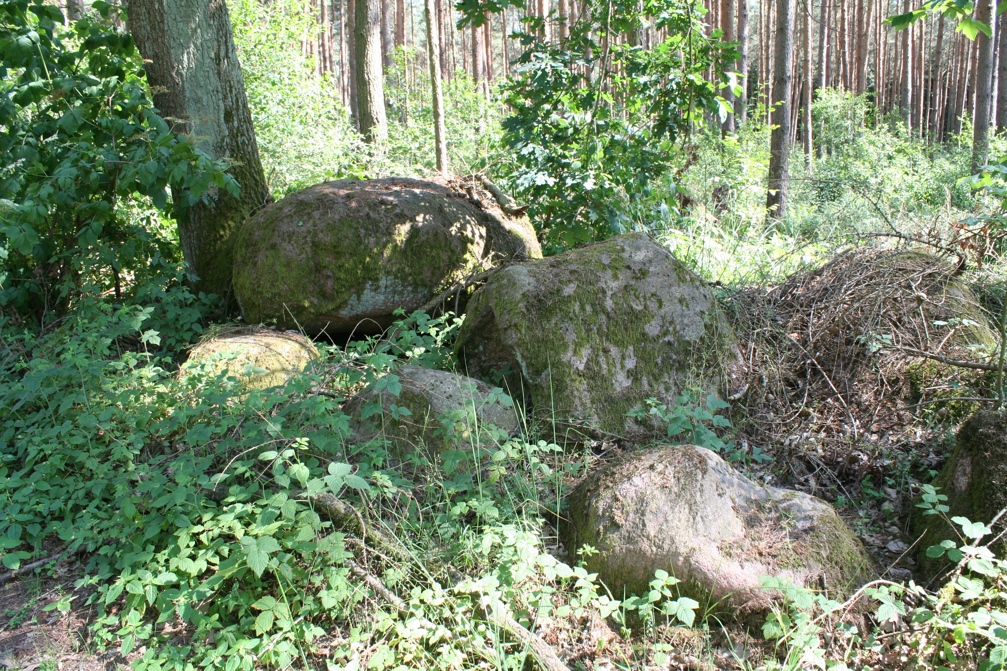 Megalithic tomb Bebertal I 5